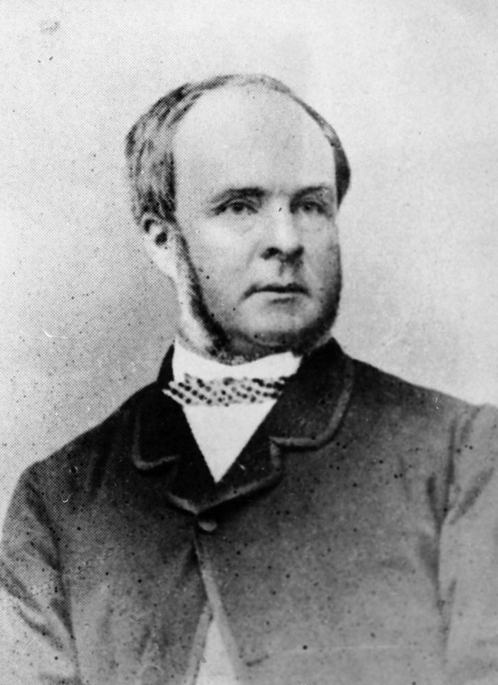 Abraham (sometimes Abram) Fitzgibbon, advisor to the Queensland Government on the first railway construction, circa 1863